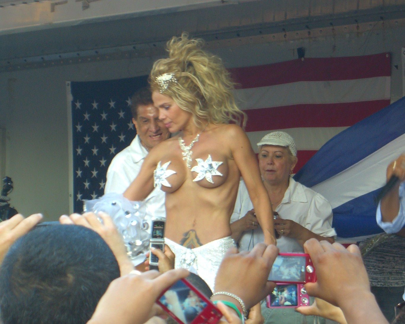 Singer/dancer/actress Niurka Marcos on stage in the 11th annual North Hudson Cuban Day Parade on Bergenline Avenue at 43rd Street in Union City, New Jersey, June 6, 2010. Photo by Luigi Novi. This photo may be used and modified, for any purpose, only if the photographer is visibly credited in each instance in which it is used. (See licensing information below.) For more information on my photos, you can contact me here.